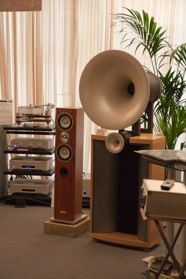 Avantgarde Acoustic Duo // Exhibits at HighEnd 2009 trade show, Munich, April 2009